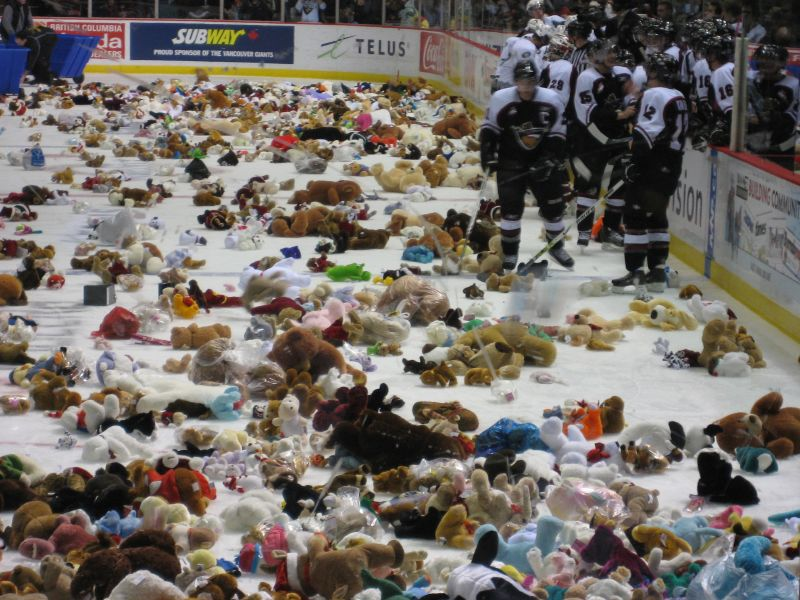 The Giants Teddy Bear Toss, The Vancouver Giants faithful fans launched a volley of plush toys onto the ice after the first goal.